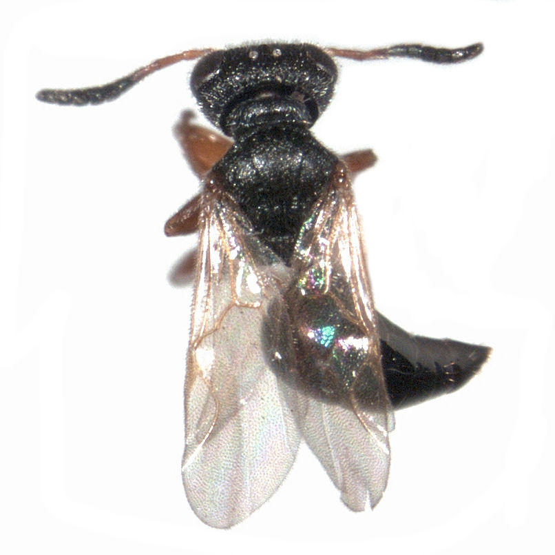 adult female Bocchus thorpei (dorsal)